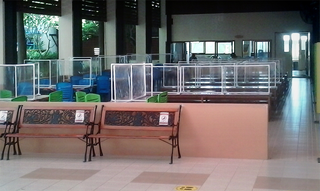 Seats by tables in school canteens has to be separated by shields during the coronavirus pandemi.